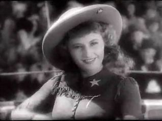 Cropped screenshot of Barbara Stanwyck from the trailer for the film Annie Oakley